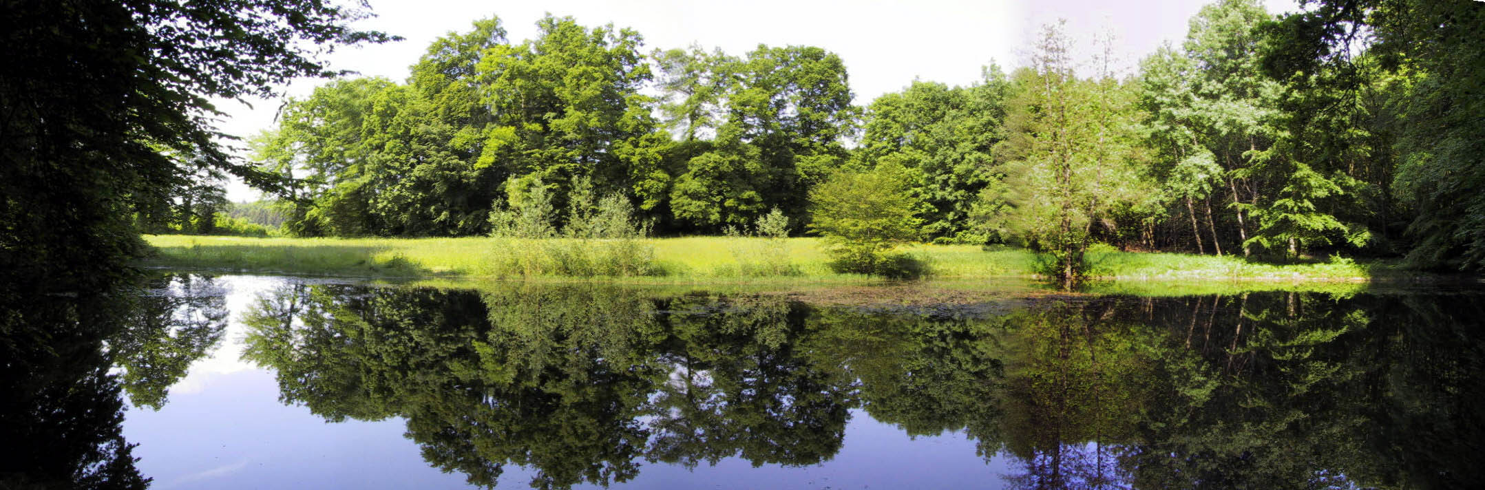 Switzerland, Canton of Schaffhausen, panoramic view of "Seeli" in Dörflingen